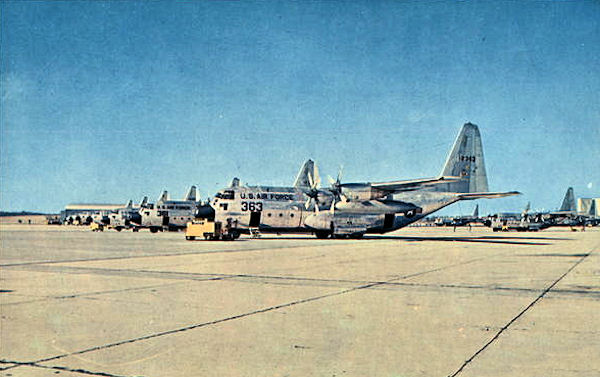 Sewart Air Force Base Postcard - C-130s-1960s